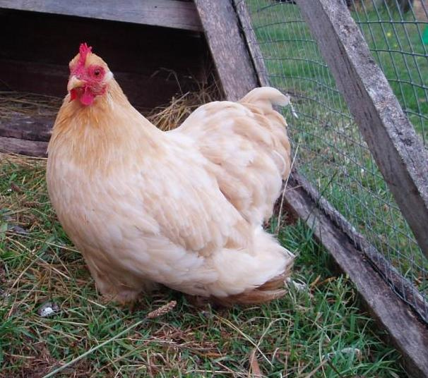 Pekin bantam female.